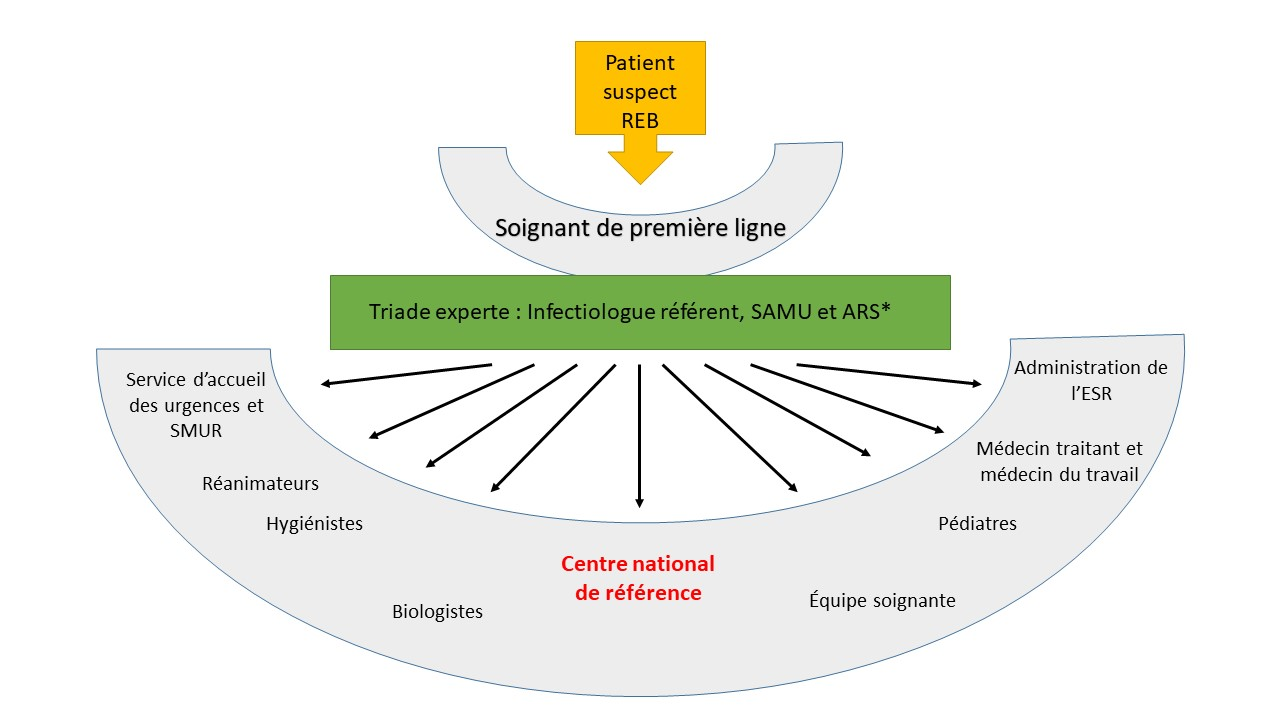 Diagram describing the stages of recommended management in France of a patient suspected of being a carrier of an emerging infectious agent